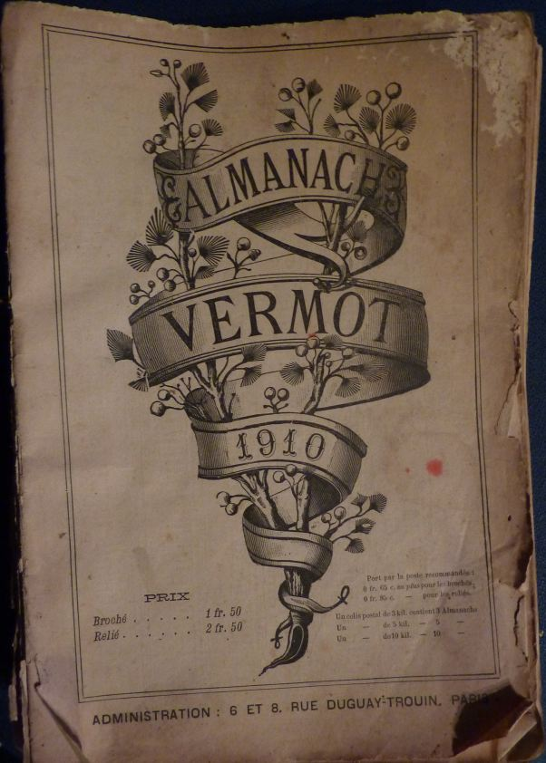 First page of the edition 1910 of the Almanach Vermot